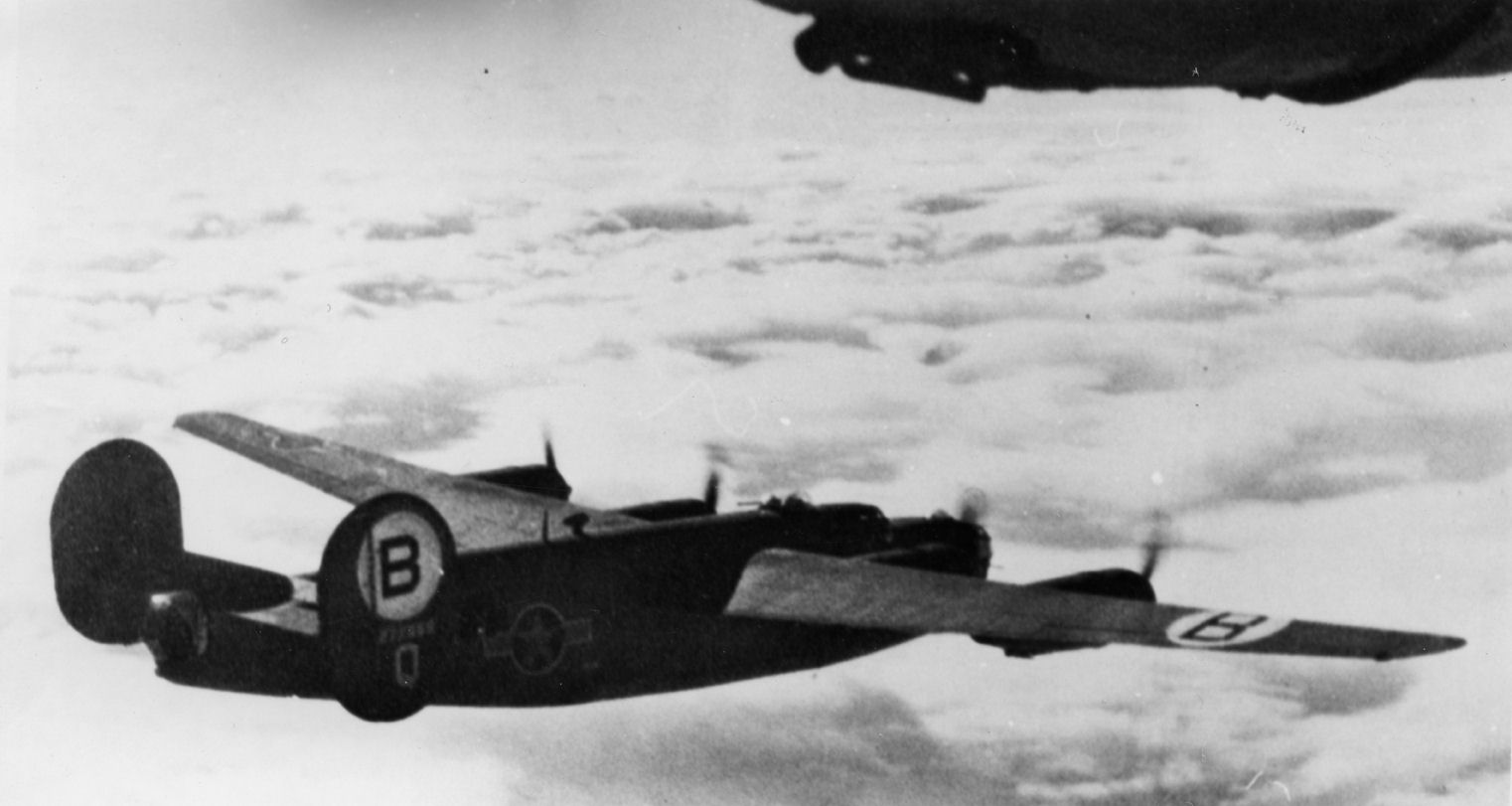 A B-24D Liberator (serial number 42-72869) of the 93rd Bomb Group flies over the cloud layer. Handwritten caption on reverse: 'B-24D. over 1) Any idea of this photo number? 272869 2) B-26 DR:C - Did you find a shot including this A/C 9B 3) P51D VF:I - Late 1944 . '